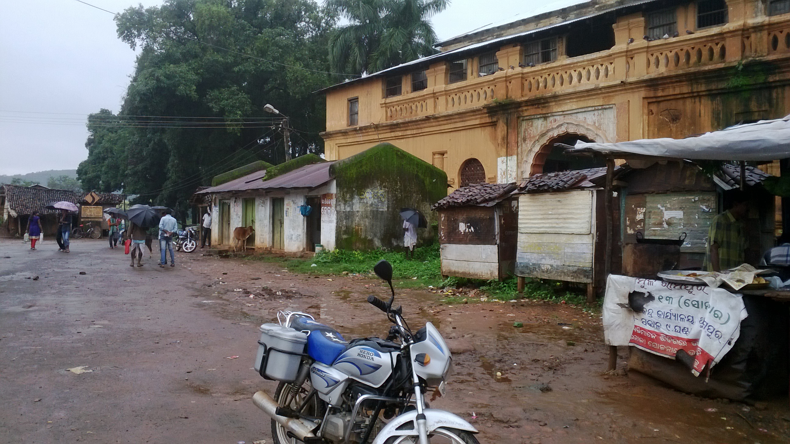 Raj Mahal Th. Rampur